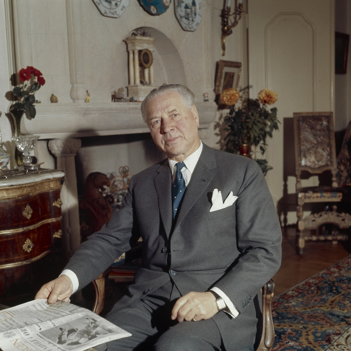 Ludvig Gustav Braathen (1891–1976), Norwegian shipowner (Ludvig G. Braathens Rederi) and businessman (airline Braathens SAFE). Photo by Rigmor Dahl Delphin in the collections of Oslo Museum via DigitaltMuseum.